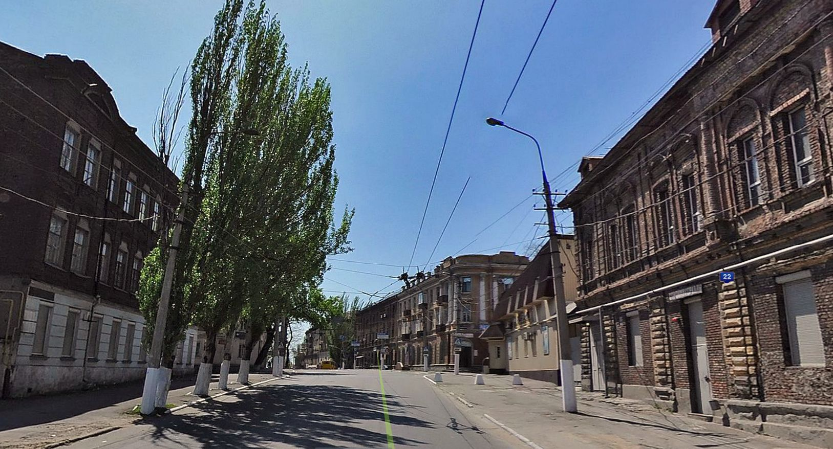 Torgovaya Str (Mariupol)